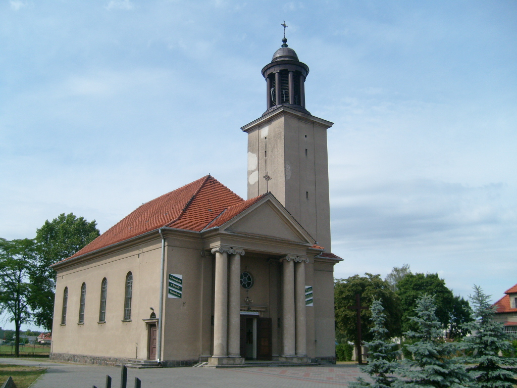 The church in Brzoza, Poland